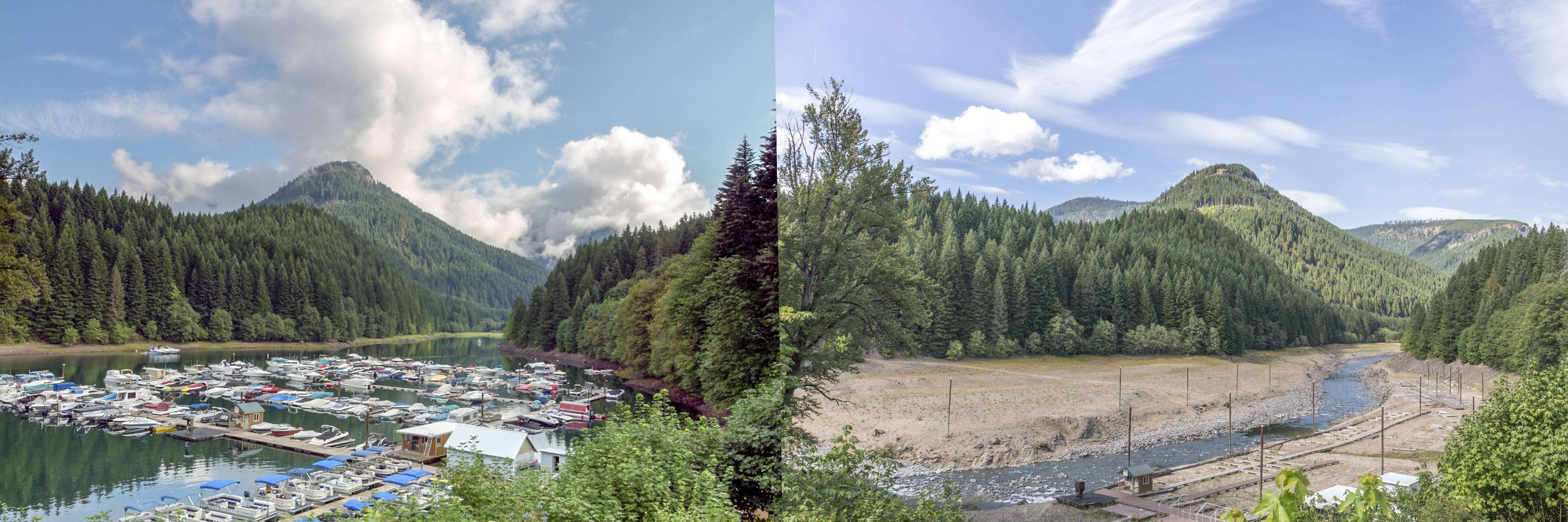 Shot one year apart, both in early August, this image shows the difference between an average water height, and a record low.